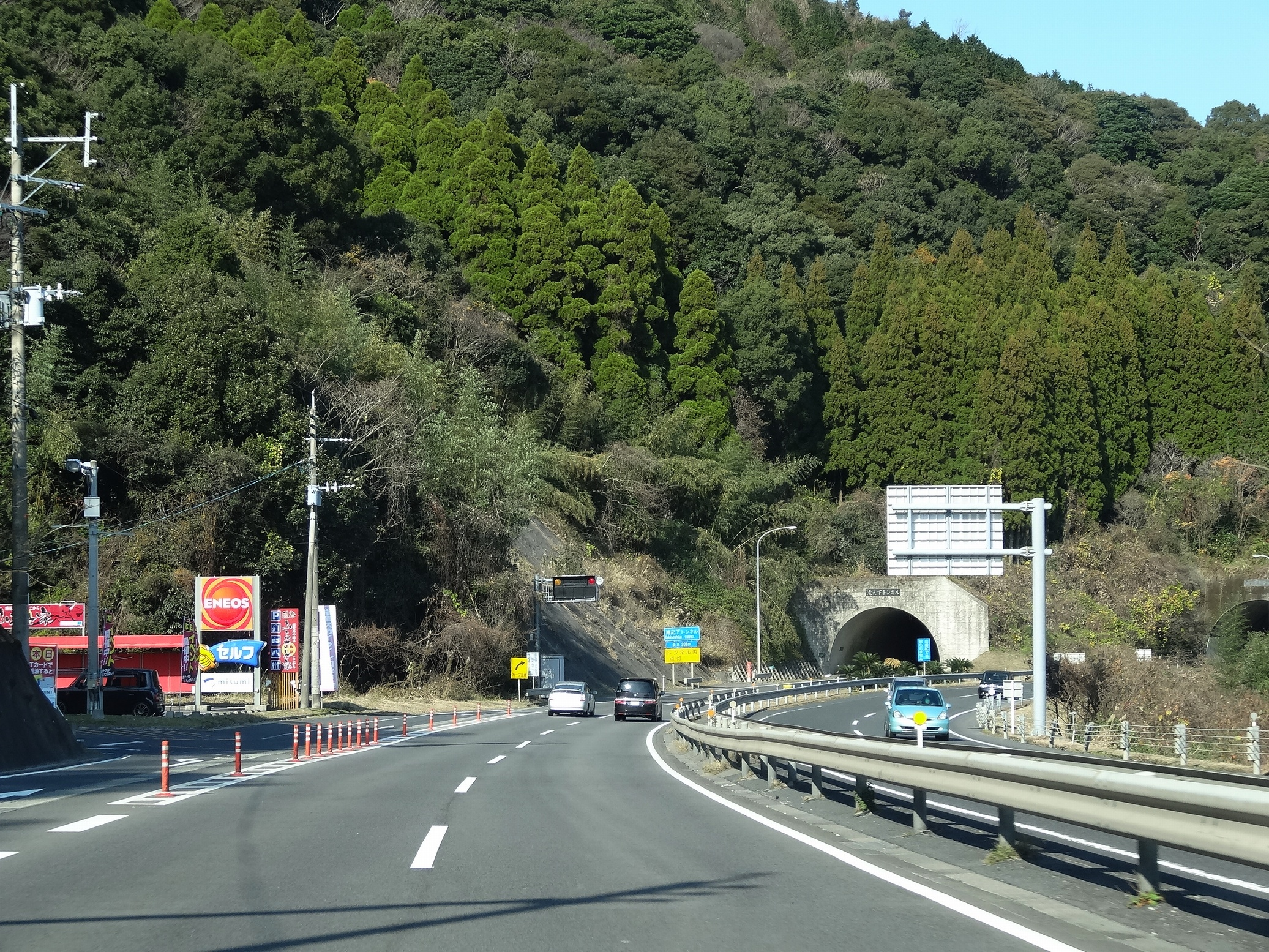 Ibusuki Skyline Toll Road at Chuzan-cho, Kagoshima City, Japan)